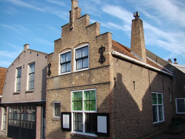 Impressions of Brouwershaven, Netherlands - Birthplace of Jacob Cats